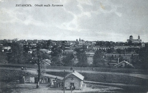 A general view of Lugansk. There is the Cathedral of St. Nicholas in the background